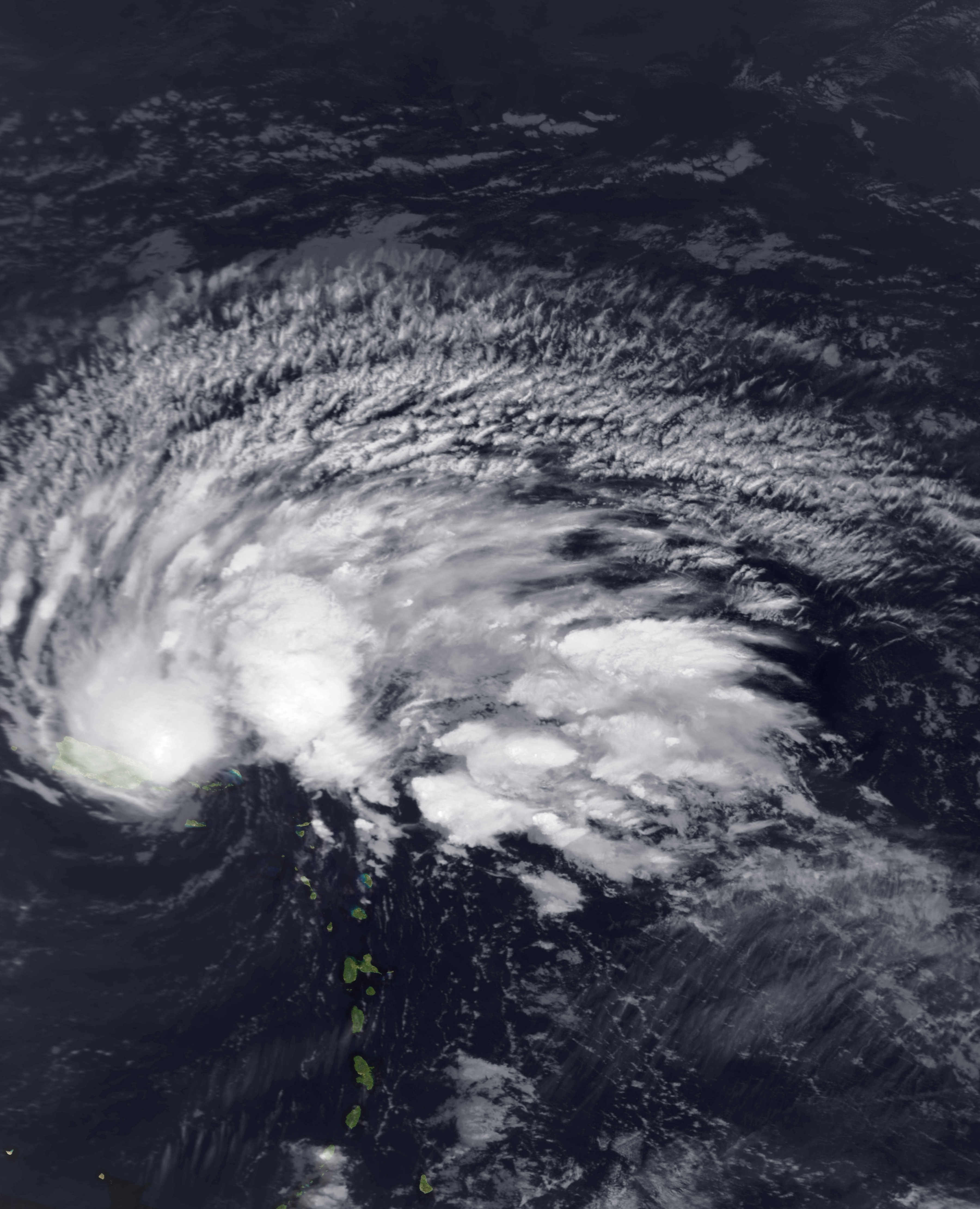 Subtropical Storm Olga shortly after it was designated as a subtropical storm on December 11, 2007. At the time, Olga was near Puerto Rico with winds of 35 knots.